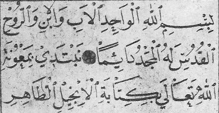 First page of Mussai Borg ,Arabic Diatessaron Manuscript